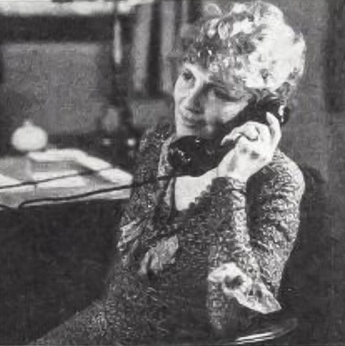 Photograph of Natalie M. Kalmus, illustration for article "They've Helped Technicolor in Record Rise", published in Exhibitors Herald World, May 31, 1930, p. 119.